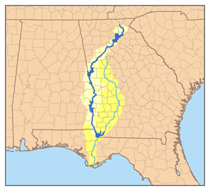 Map of the Chattahoochee River (highlighted) and watershed — in the Apalachicola Basin (ACF Basin) Located in Georgia and Alabama, of the Southeastern United States. I, Pfly, created it based on USGS data.